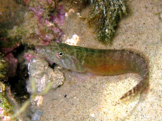 Lepadogaster candolii photographed in Rab (Croatia)